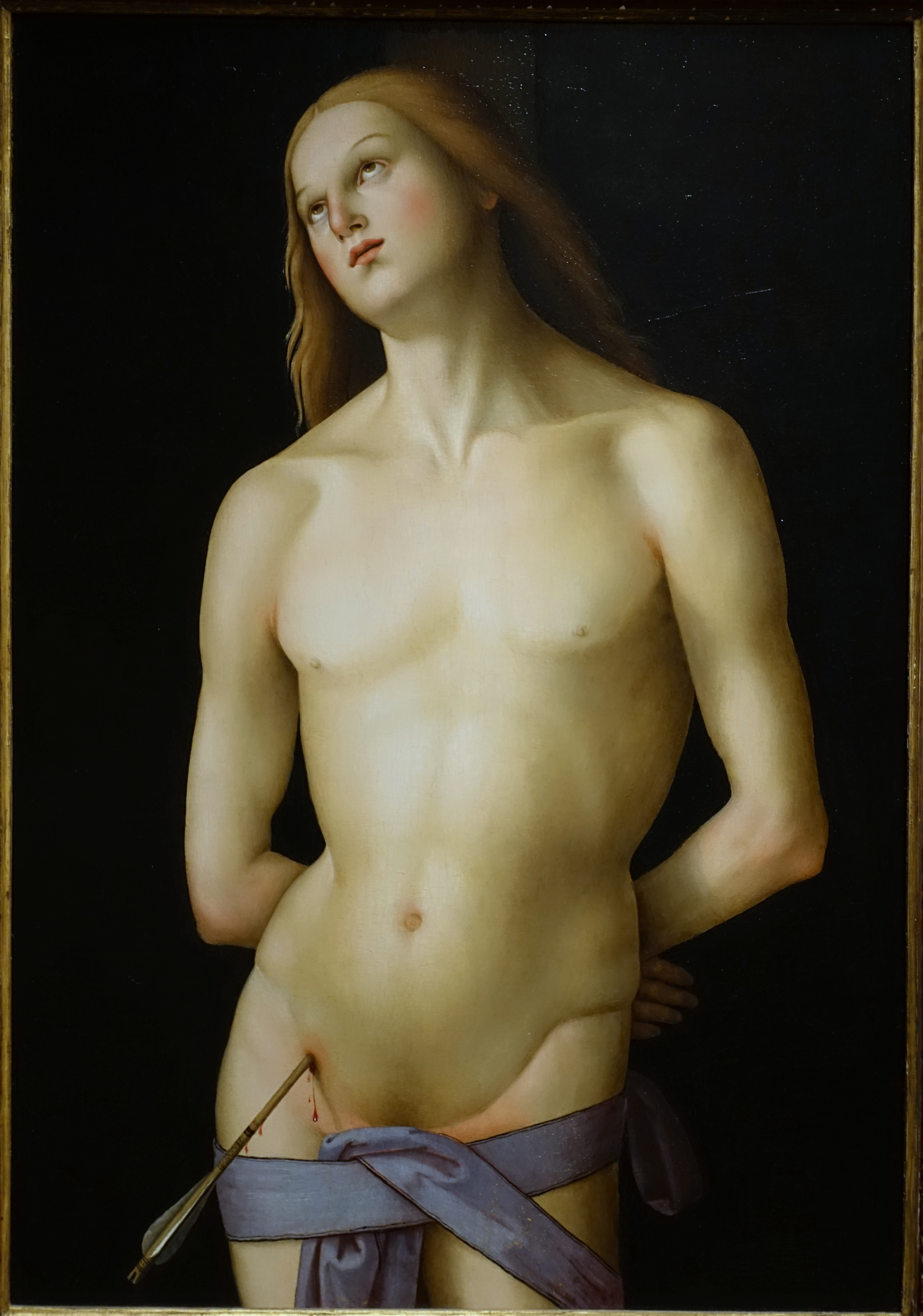 Exhibit in the Princeton University Art Museum - Princeton University, Princeton, New Jersey, USA.